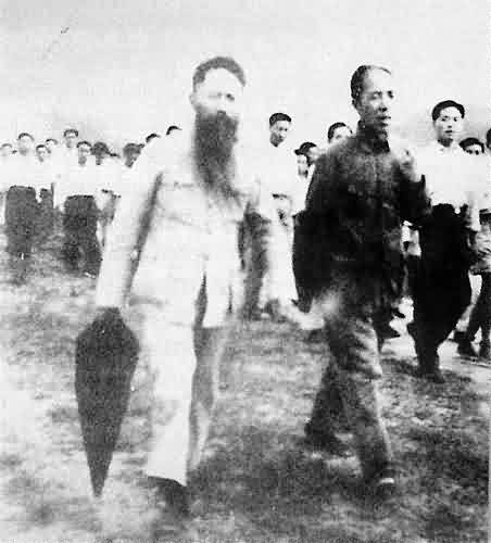 hu shuhua, the president of hunan university. 1947